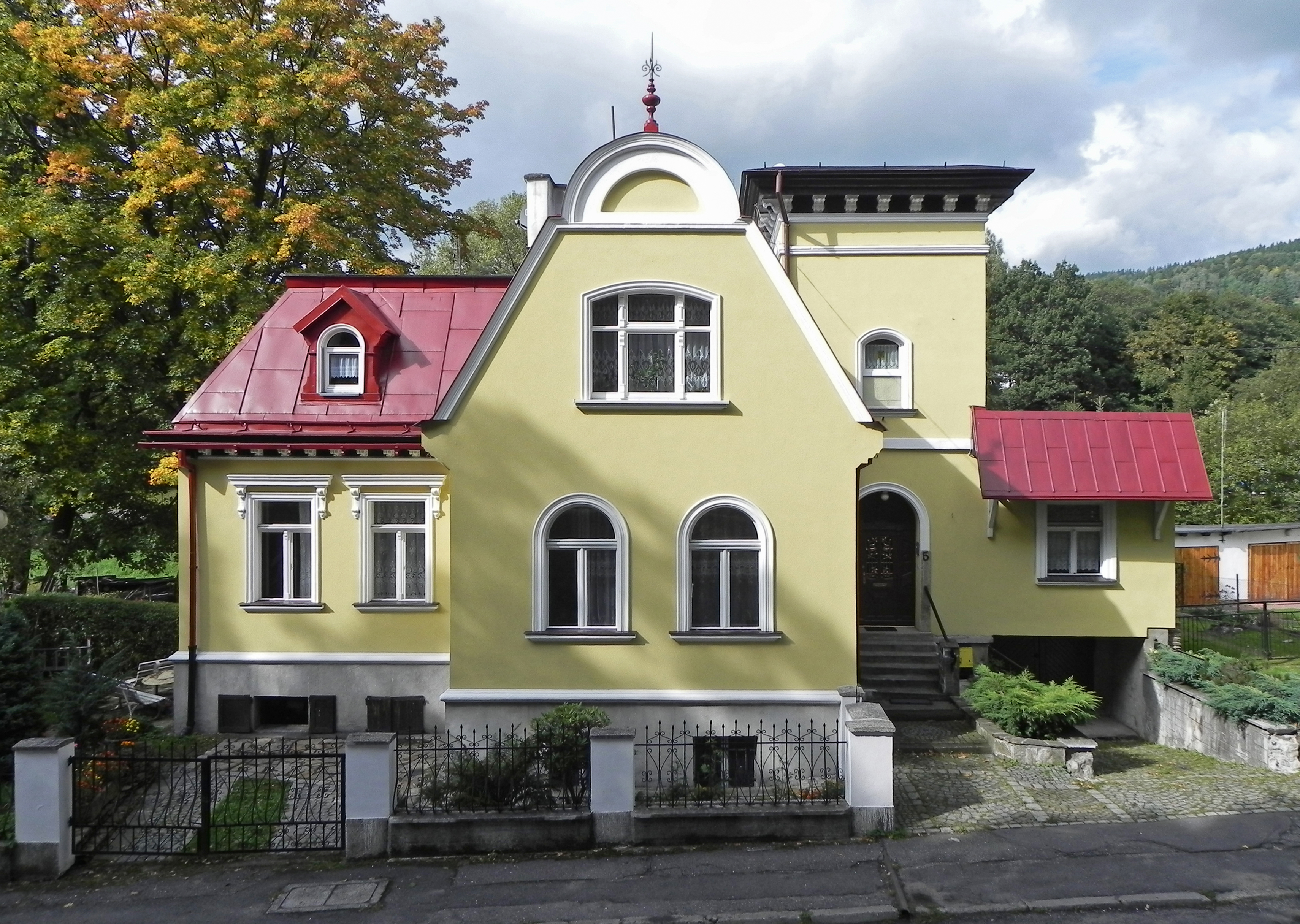 5 Zamenhofa Street in Lądek-Zdrój